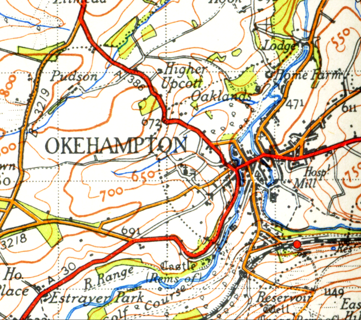 Map of Okehampton from 1946. Scale 1 inch to the mile 600DPI Sheet 175